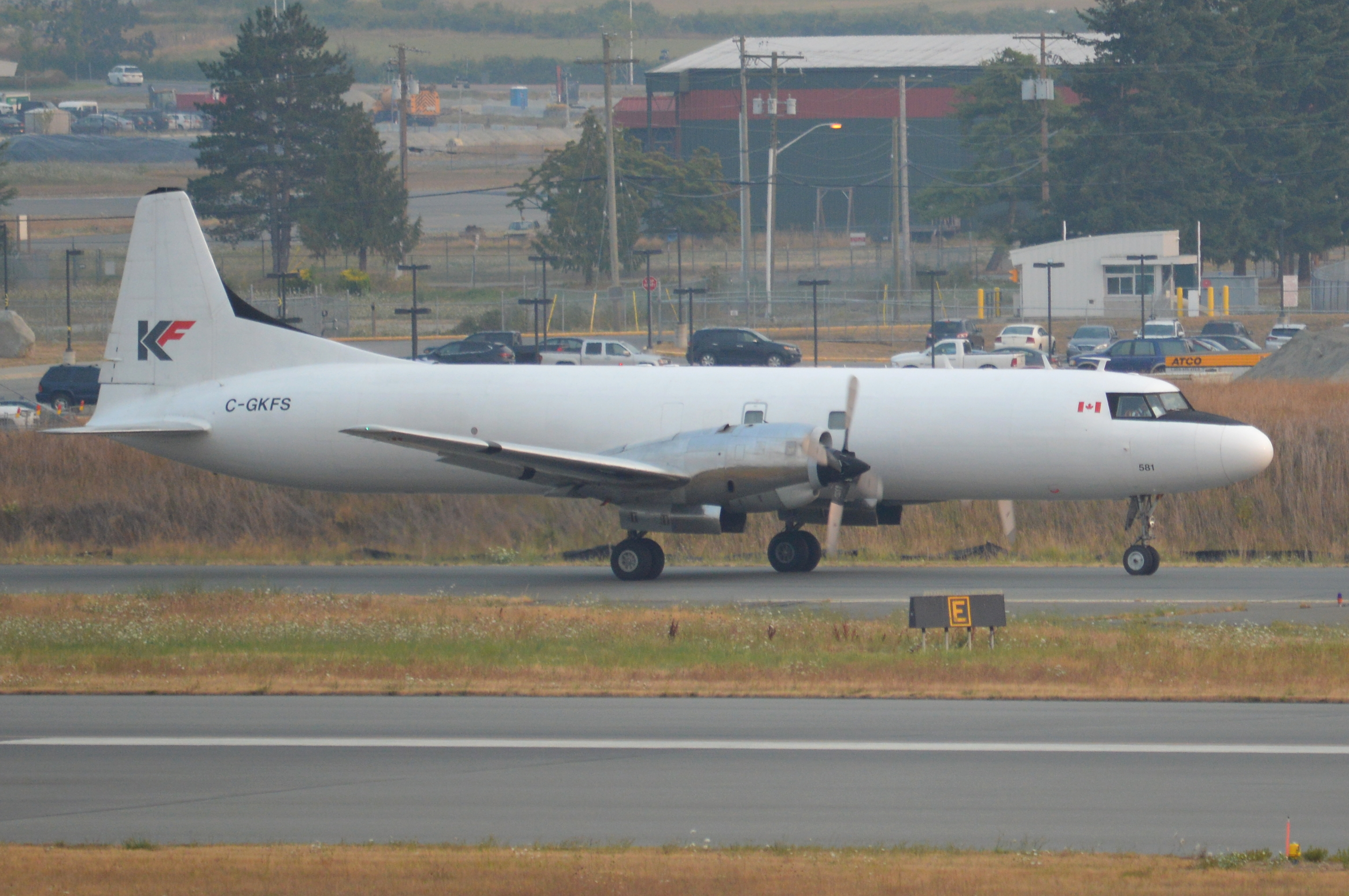 KF Cargo Convair CV-5800 taxiing for takeoff at Victoria International Airport, August 2018.